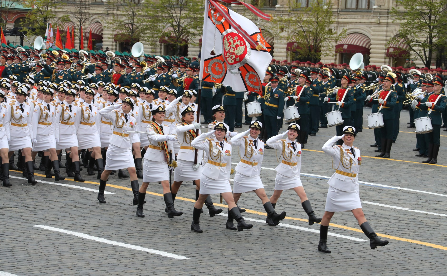 Military parade on Red Square 2017-05-09